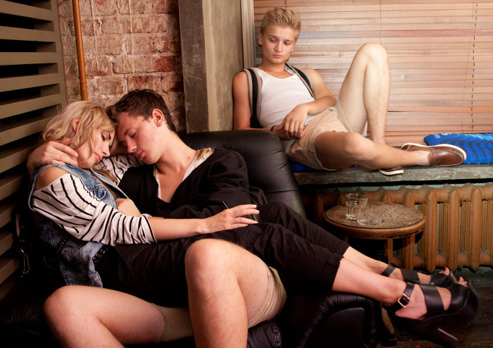 Photo by Nikita Shokhov from the series Moscow Nightlife. 2012